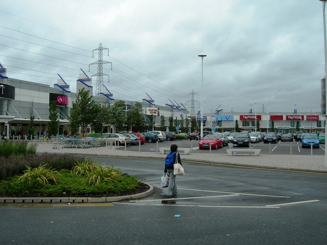 Gallions Reach This picture shows part of a large new retail park. Here is a link to their website.